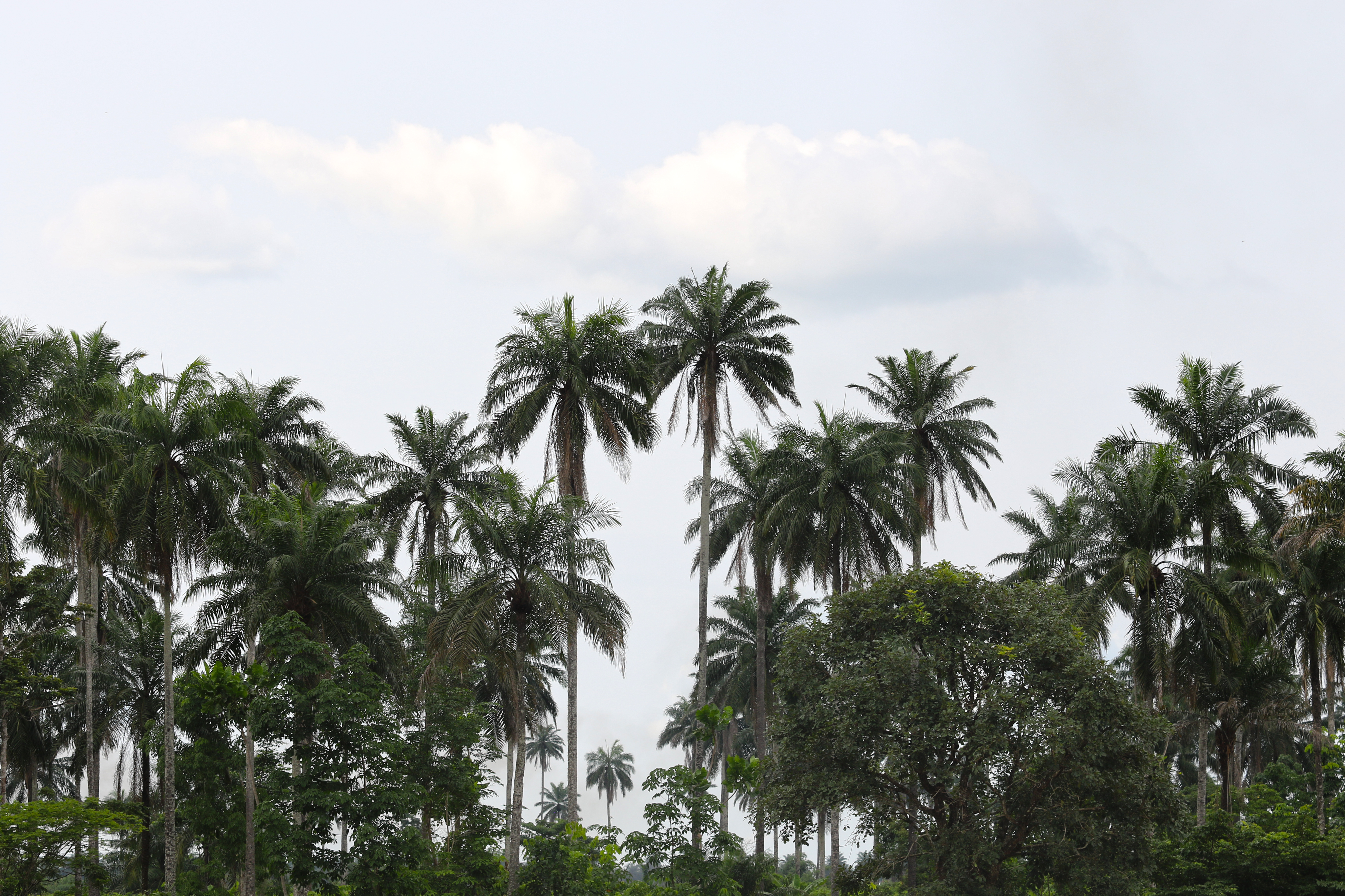 Palm trees plantation at Kwale Delta state beside OPAC Refinery